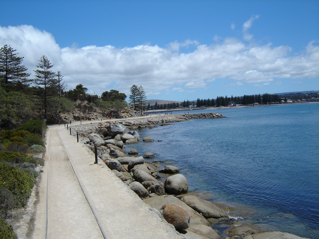 Granite Island at Victor Harbor in South Australia. Note the tracks in the foreground that belong to the Victor Harbor Horse Drawn Tram. For more information, see the Wikipedia articles Granite Island (Australia) and Victor Harbor Horse Drawn Tram.